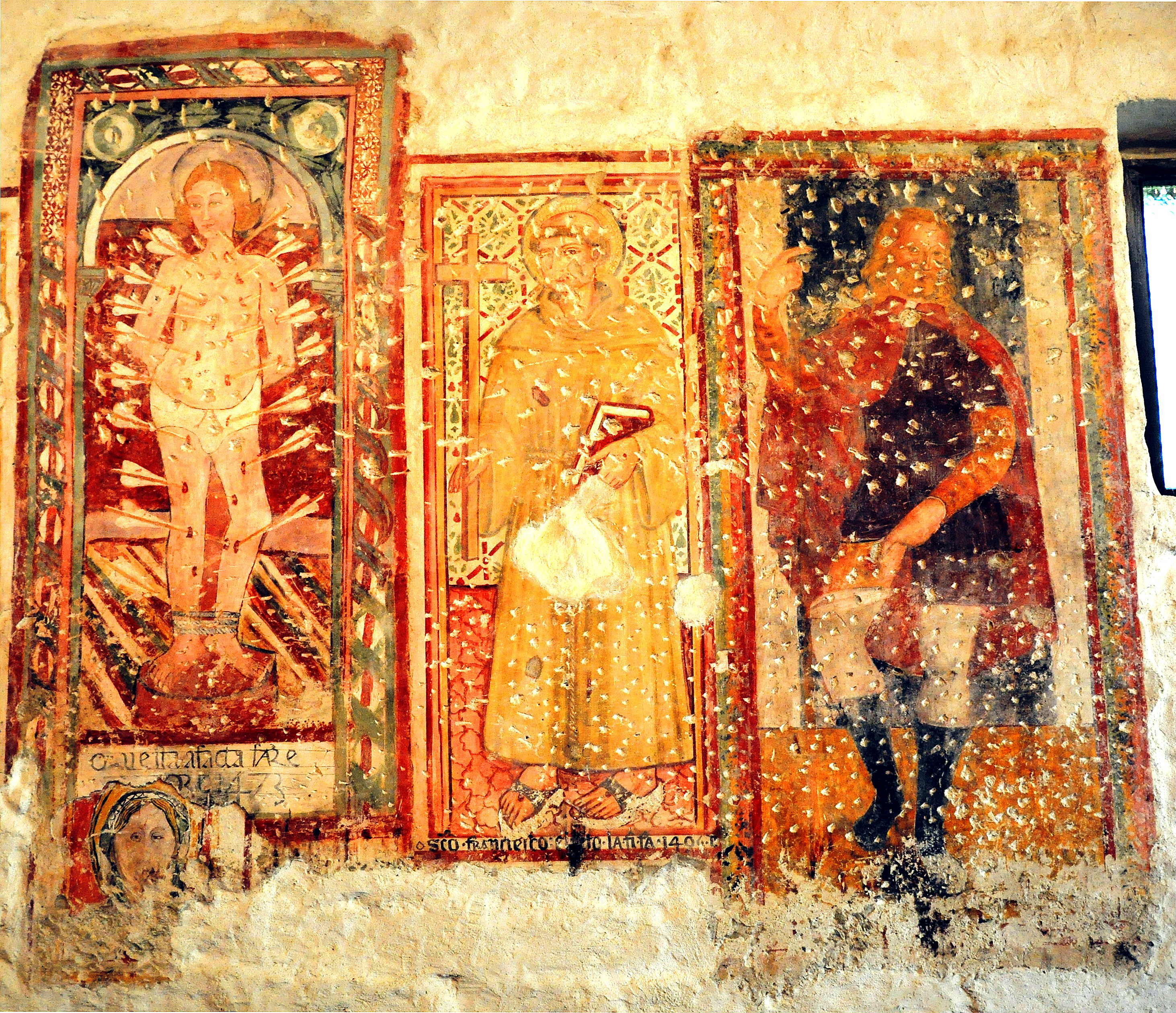 Fresco of saints (from left) Sebastian, Francis and Roch